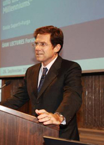 Giulio Superti-Furga, Scientific Director of CeMM, the Research Center for Molecular Medicine of the Austrian Academy of Sciences during a presentation at the Austrian Academy of Sciences